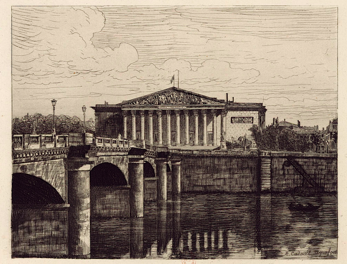 La Chambre des députés [Paris], etching by Alfred Cadart, published in La Société des aquafortistes [issue 3], Paris.